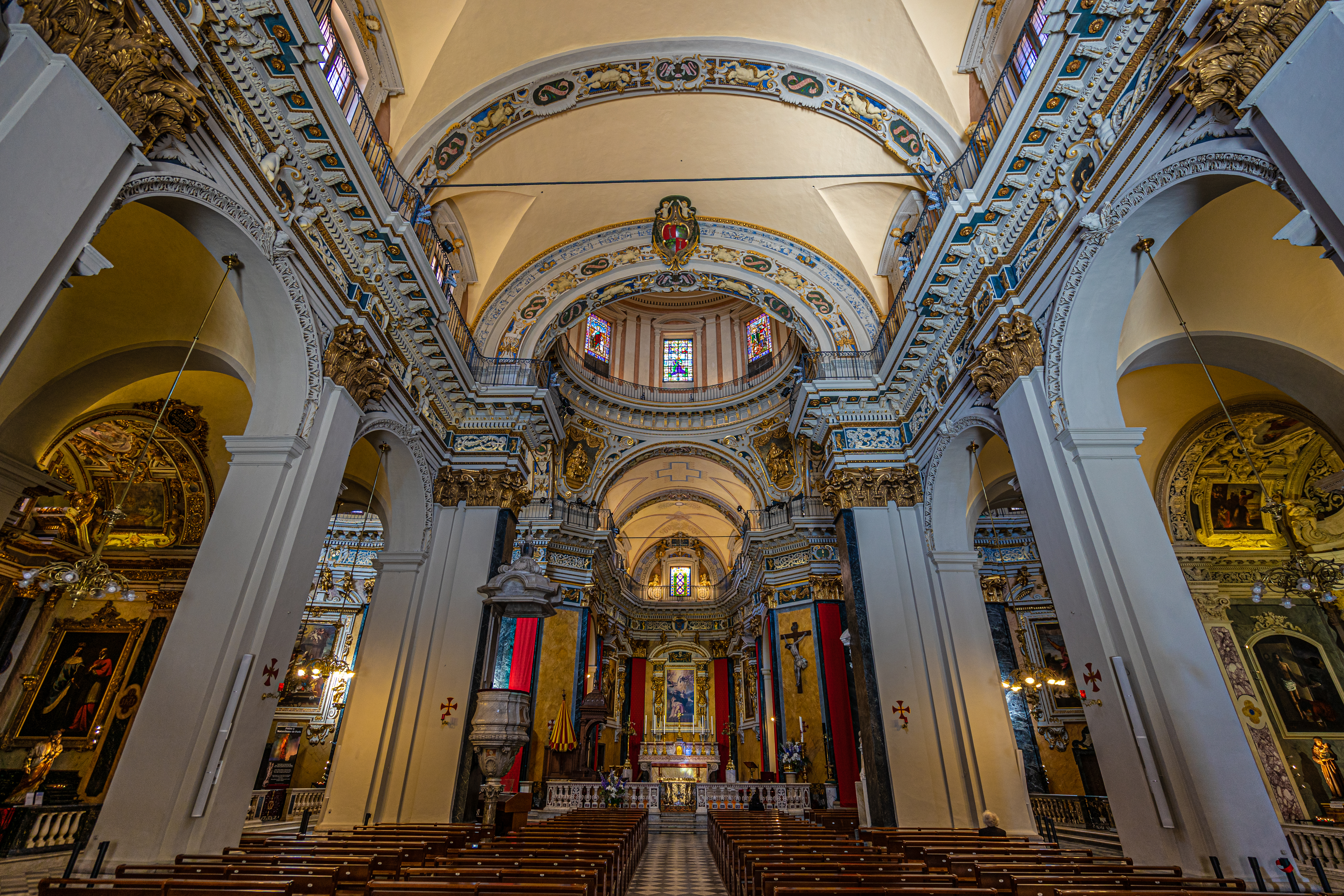 Interior of cathedral Sainte-Réparate of Nice, France, on May 14, 2019.